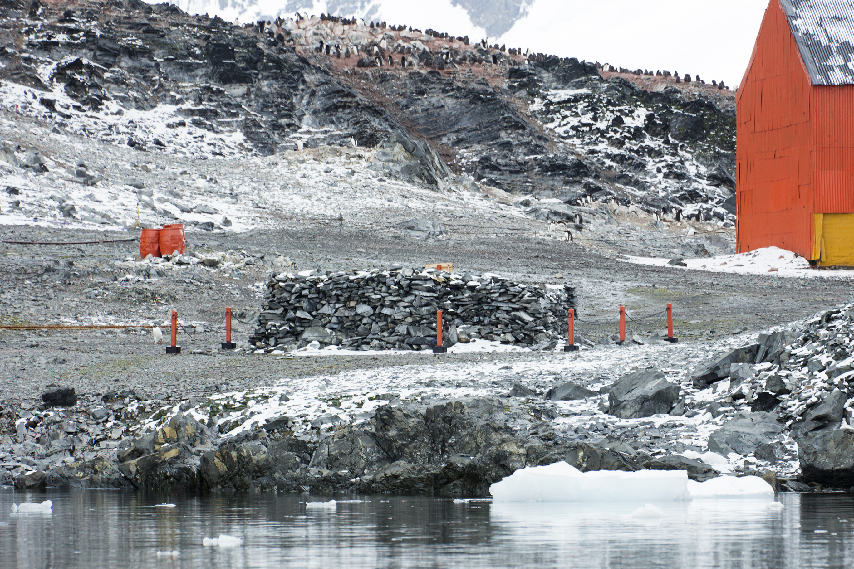 Esperanza Station, Hope Bay, Trinity Peninsula, on the northernmost tip of the Antarctic Peninsula